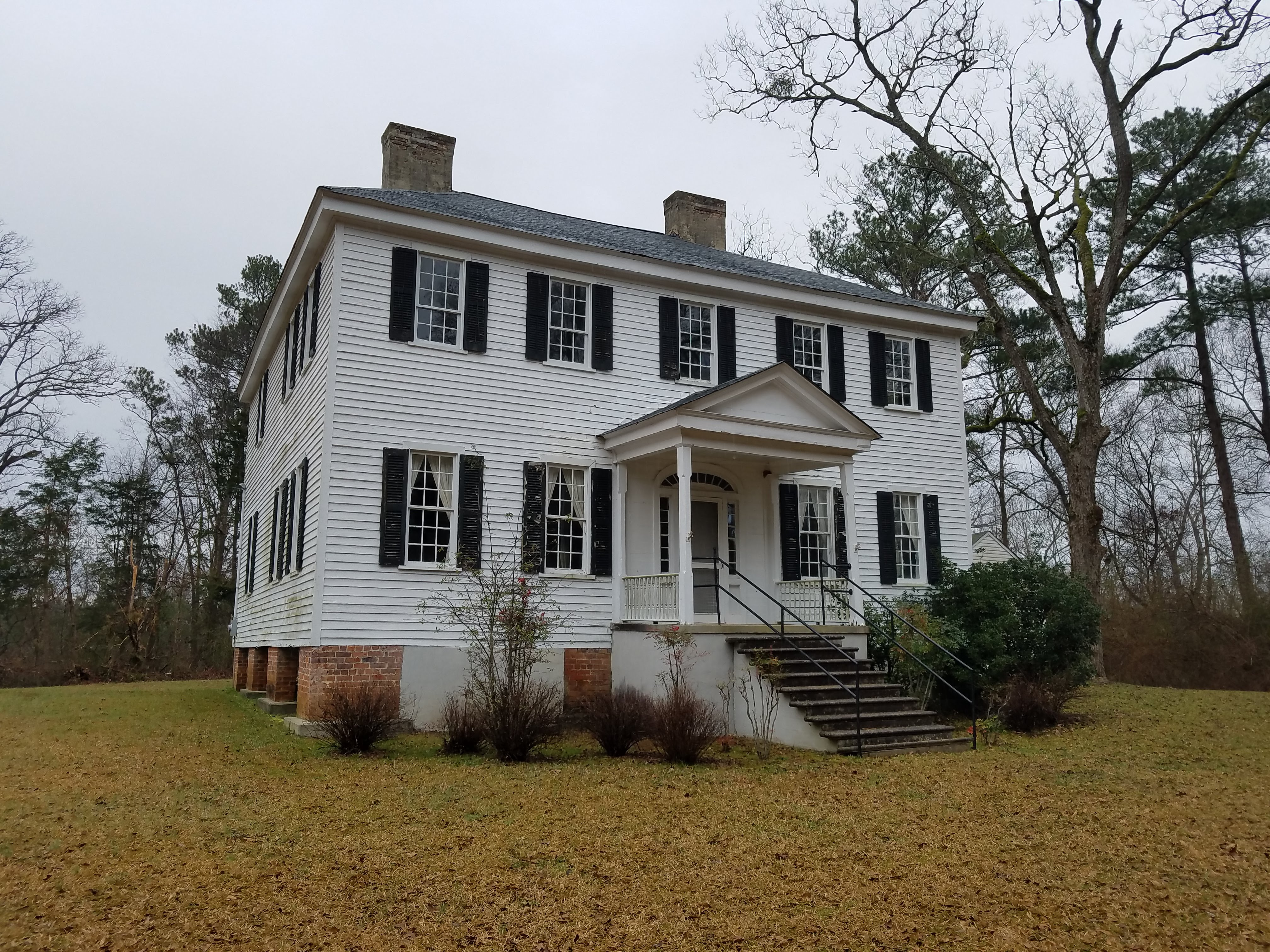 The exterior of the Feasterville Boarding House as seen in 2019. Originally constructed in 1845.